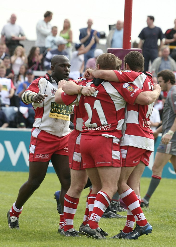 Leigh Centurions players celebrate scoring a try during a Rugby Super League match. Please attribute this image to Michael Ward if used elsewhere.